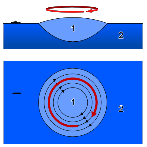 Geostrophic_current (1. Hot and light water 2. Cold and heavy water) in Northern hemisphere